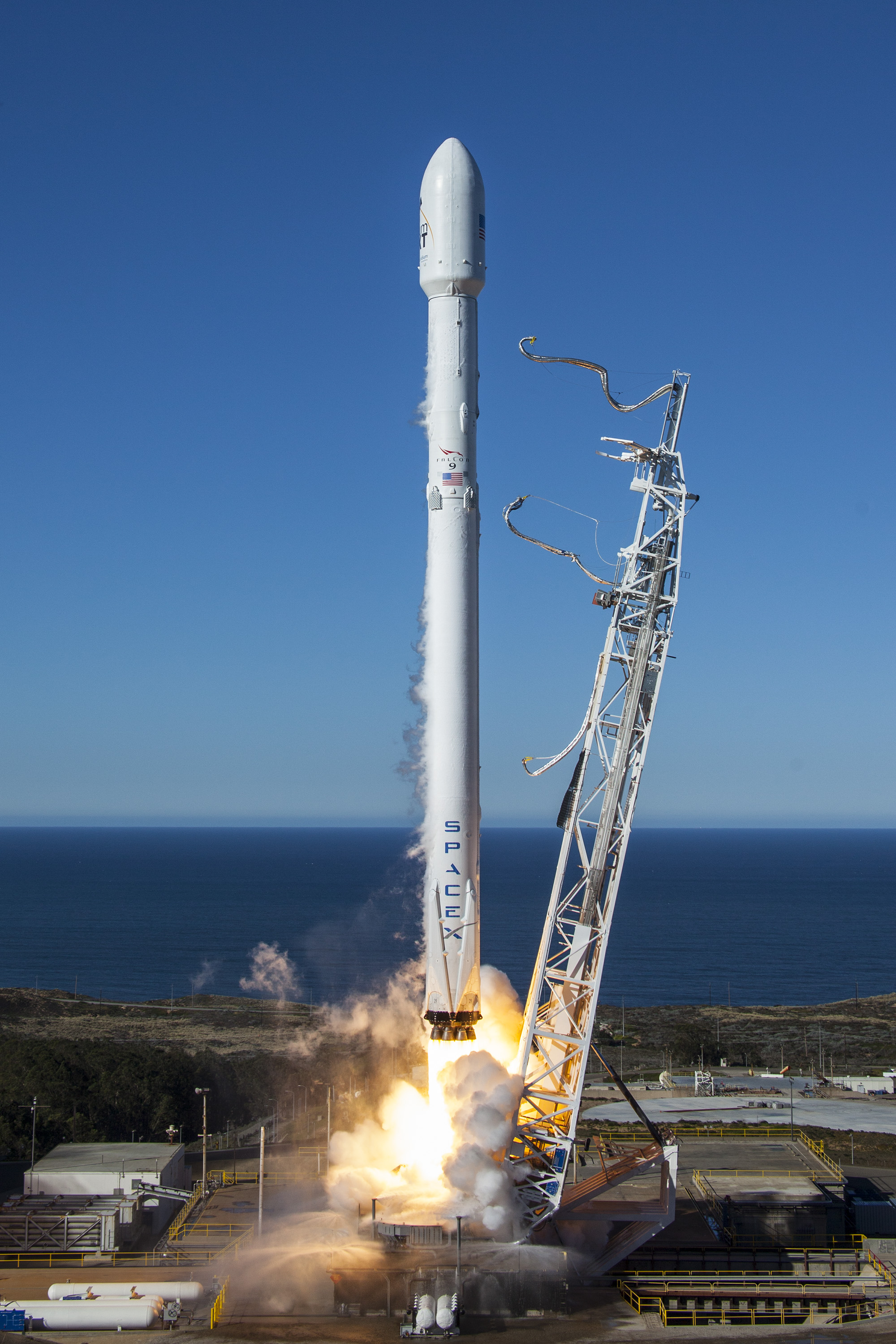 SpaceX’s Falcon 9 Full Thrust rocket lifts off from Vandenberg Air Force Base SLC-4E with the first ten Iridium NEXT communication satellites.